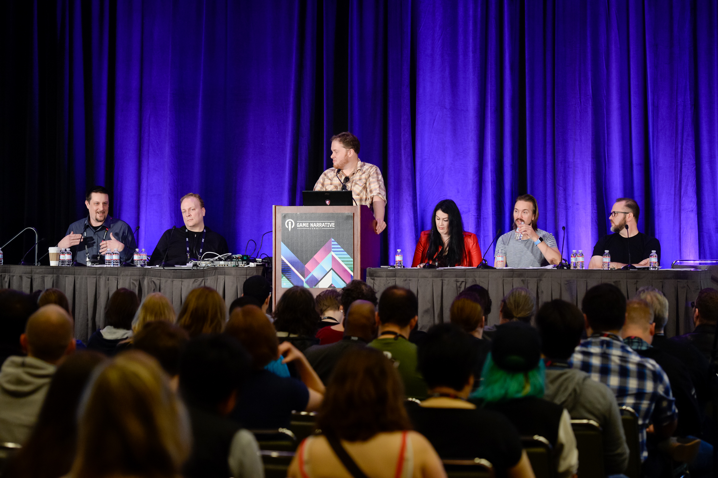 "Raid on Rise: Narrative Creation on 'Rise of The Tomb Raider' Rhianna Pratchett | Writer, Independent John Stafford | Lead Narrative Designer, Crystal Dynamics Cameron Suey | Narrative Designer, Crystal Dynamics Tore Blystad | Performance Director, Crystal Dynamics Jeff Adams | Senior Story Artist, Crystal Dynamics Noah Hughes | Creative Director, Crystal Dynamics Location: Room 3016, West Hall Date: Tuesday, March 15 Time: 10:00am - 11:00am"